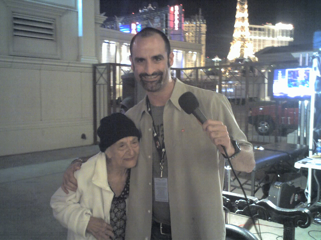 Brody and 103 year old woman Possibly part of Brody Steven's series of "trading card" photographs, Brody poses with 103 year old woman.